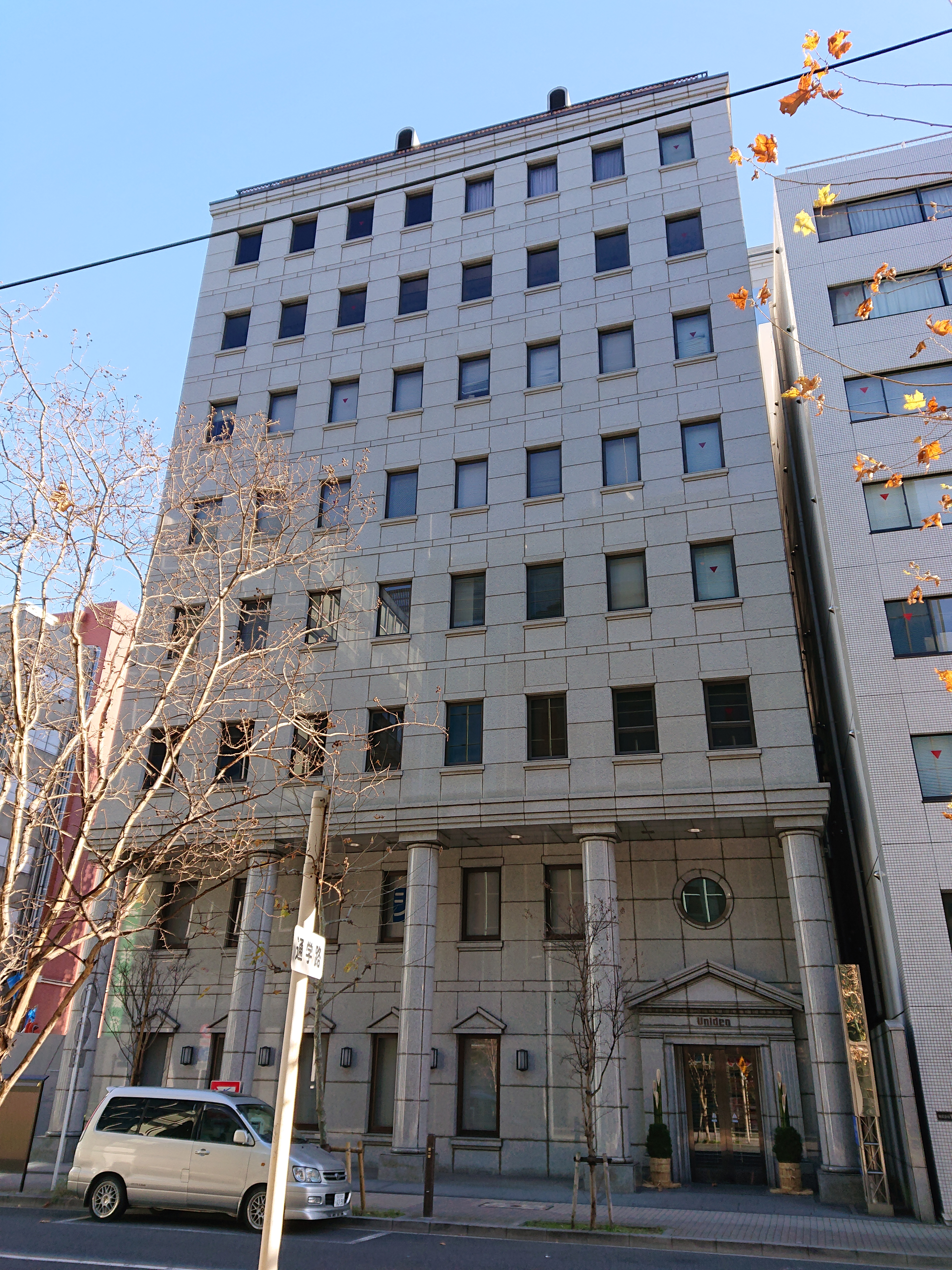 Uniden Holdings (ユニデンホールディングス) headquarters, located at 2-12-7 Hatchobori, Chuo, Tokyo, Japan